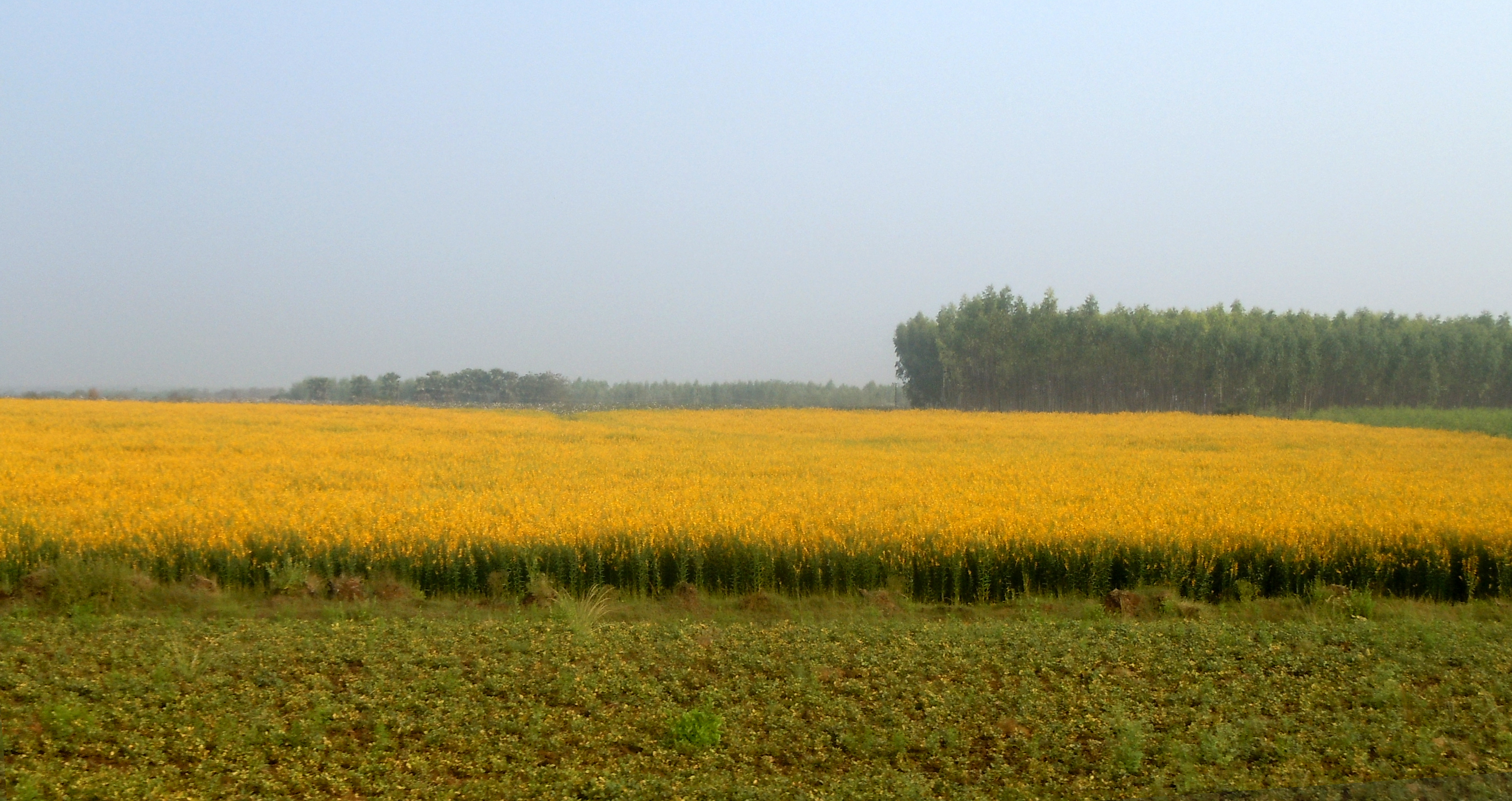 Toor Dal Fields near Bhadrachalam, Khammam district